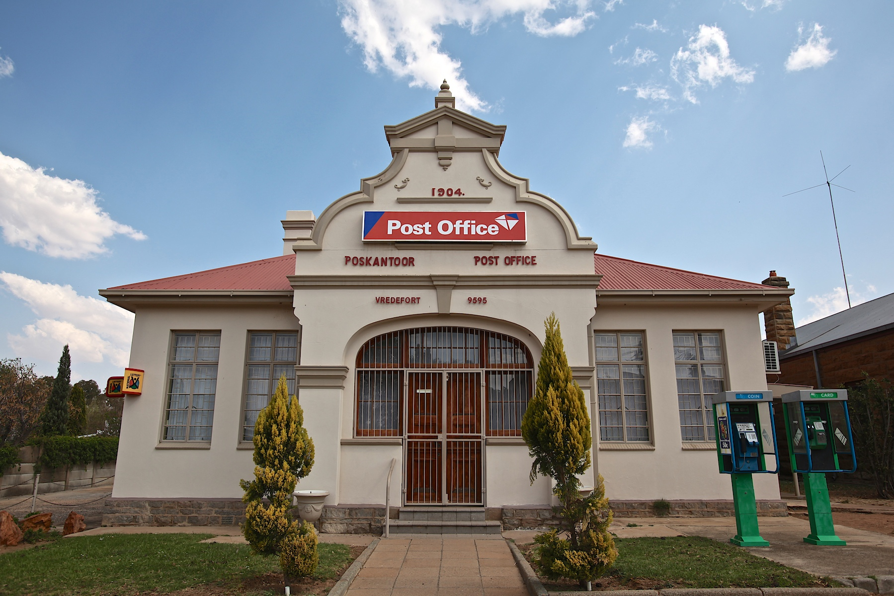 Post Office, 15 Oranje Street, Vredefort This media shows a South African Protected Site with SAHRA file reference 9/2/344/0002.